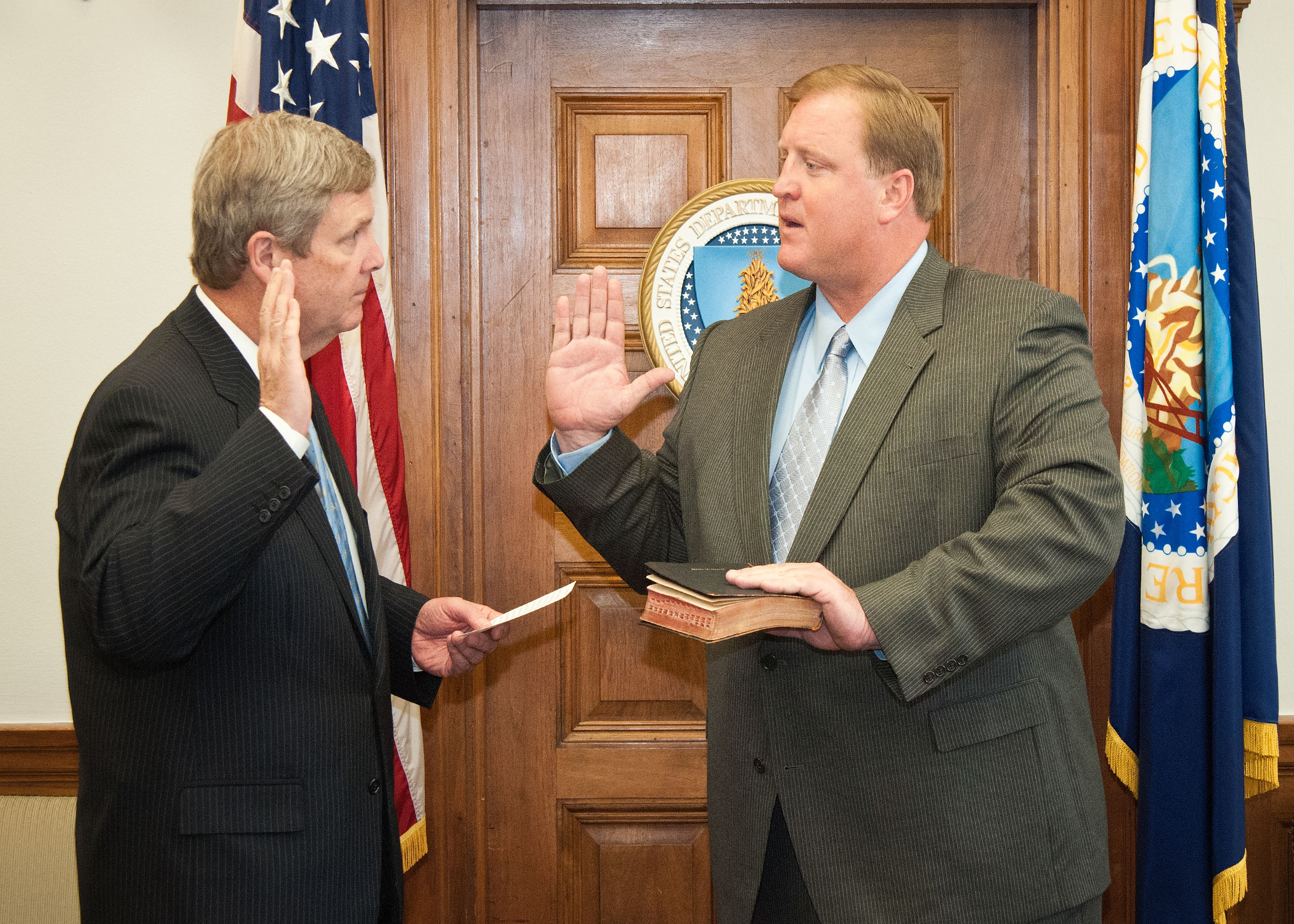 Agriculture Secretary Tom Vilsack administers the Oath of Office to former Iowa Governor Chester Culver for the Federal Agricultural Mortgage Corporation, commonly known as Farmer Mac at the United States Department of Agriculture in Washington, D.C., Wednesday, April 4, 2012. Governor Culver was nominated by President Barack Obama last summer and recently confirmed by the Senate this week. Farmer Mac was created by Congress to establish a secondary market for agricultural mortgage and rural utilities loans to increase the availability of long-term credit at stable interest rates to segments of rural America. USDA Photo by Bob Nichols.